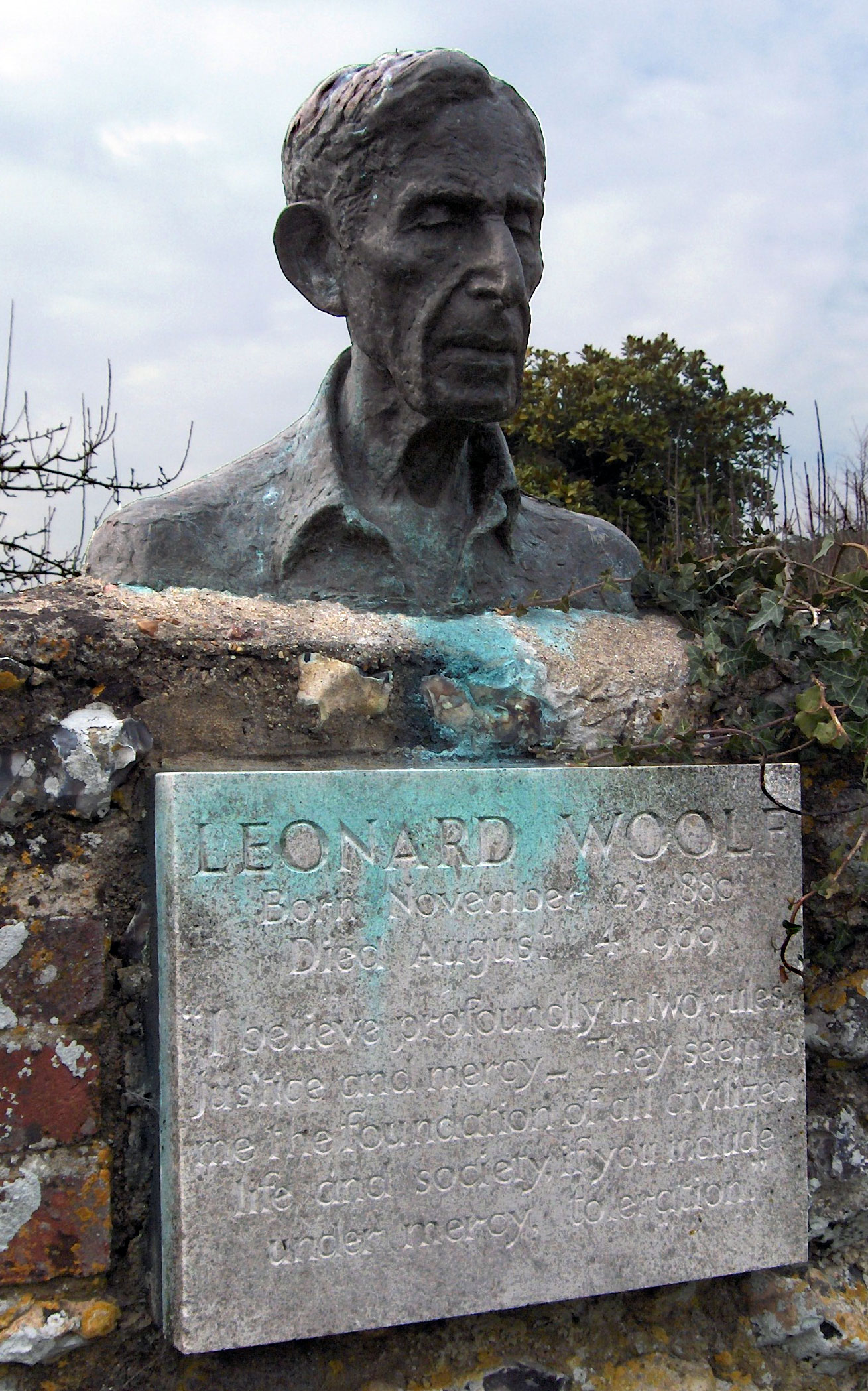 Bust of Leonard Woolf at Monk's House, by Charlotte Hewer